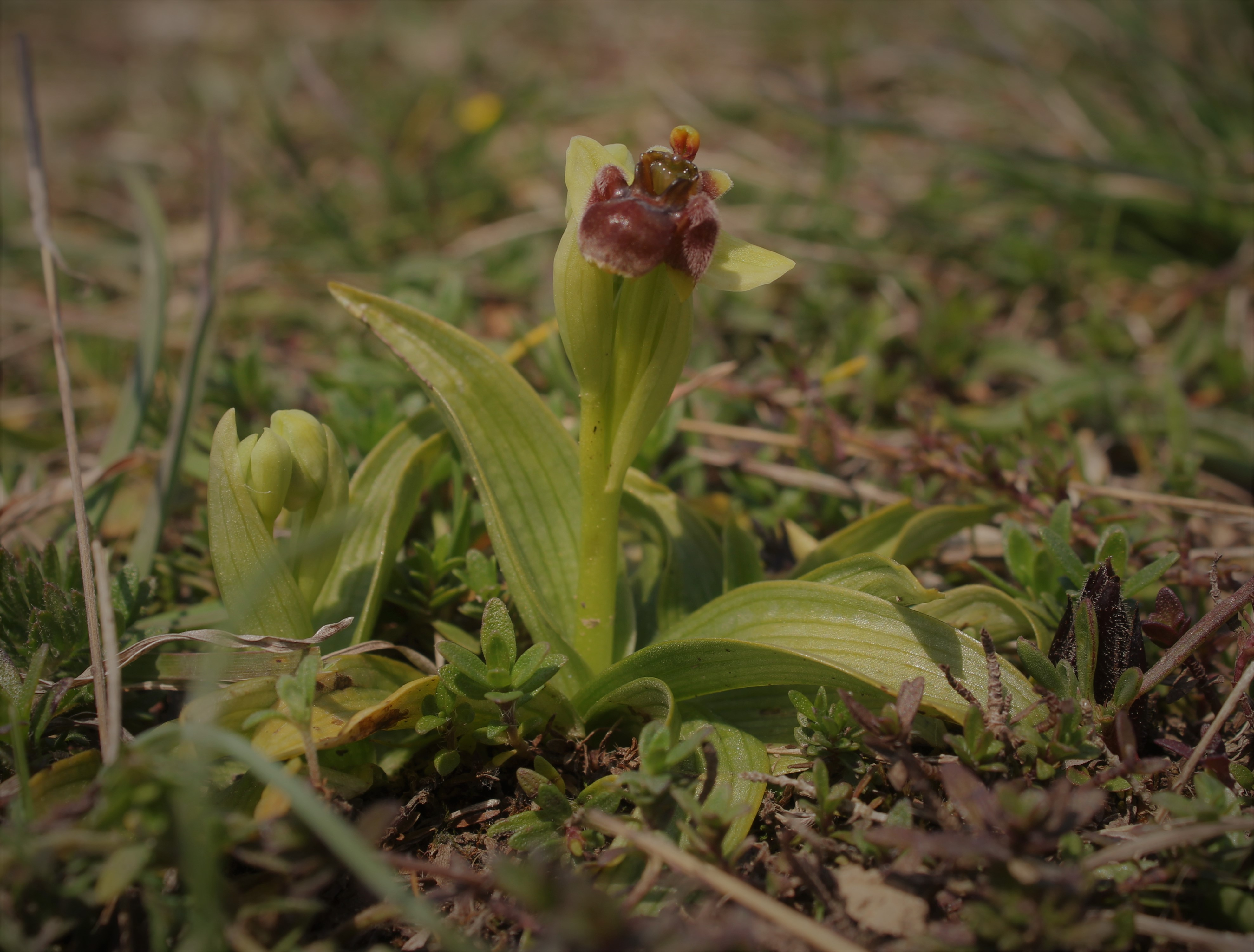 Ophrys bombyliflora scape